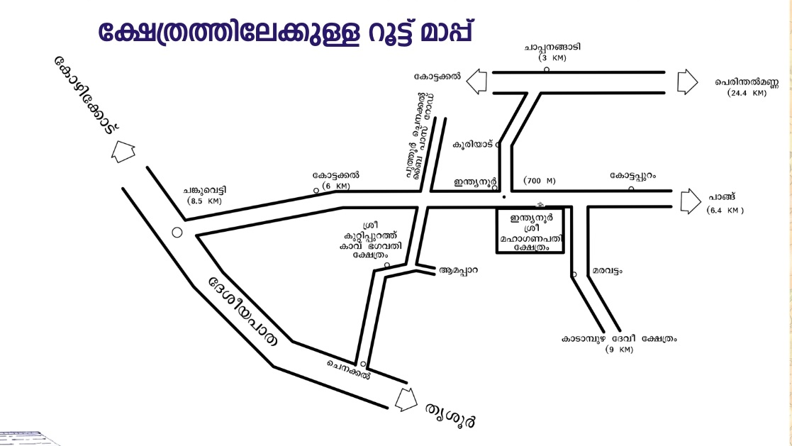 indianur mahaganapathy temple